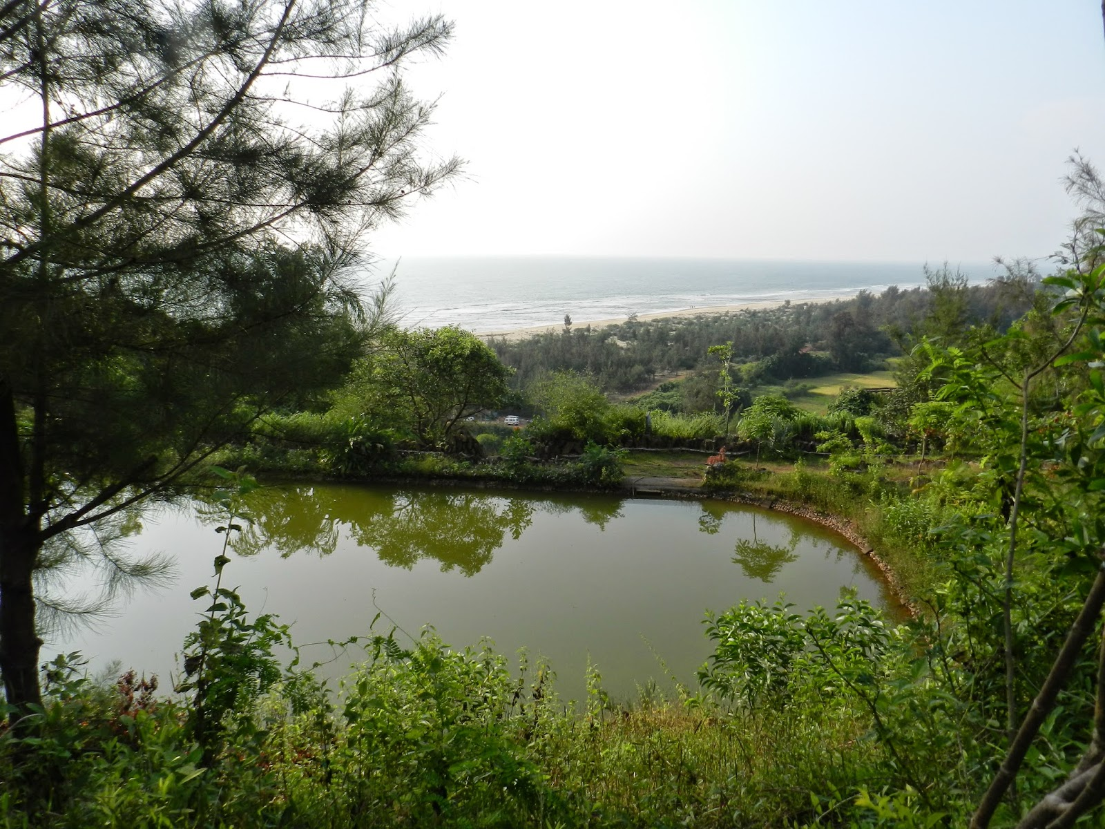 Apasarakonda beach near Honnavar